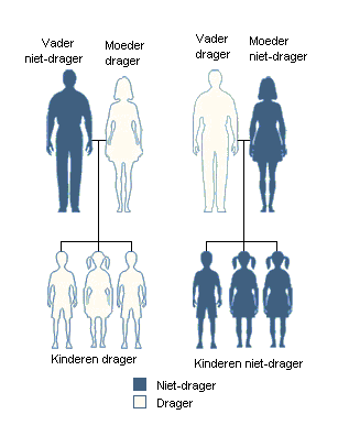 This image is a work of the National Institutes of Health, part of the United States Department of Health and Human Services. As a work of the U.S. federal government, the image is in the public domain. The original English text inside the image was translated to Dutch.